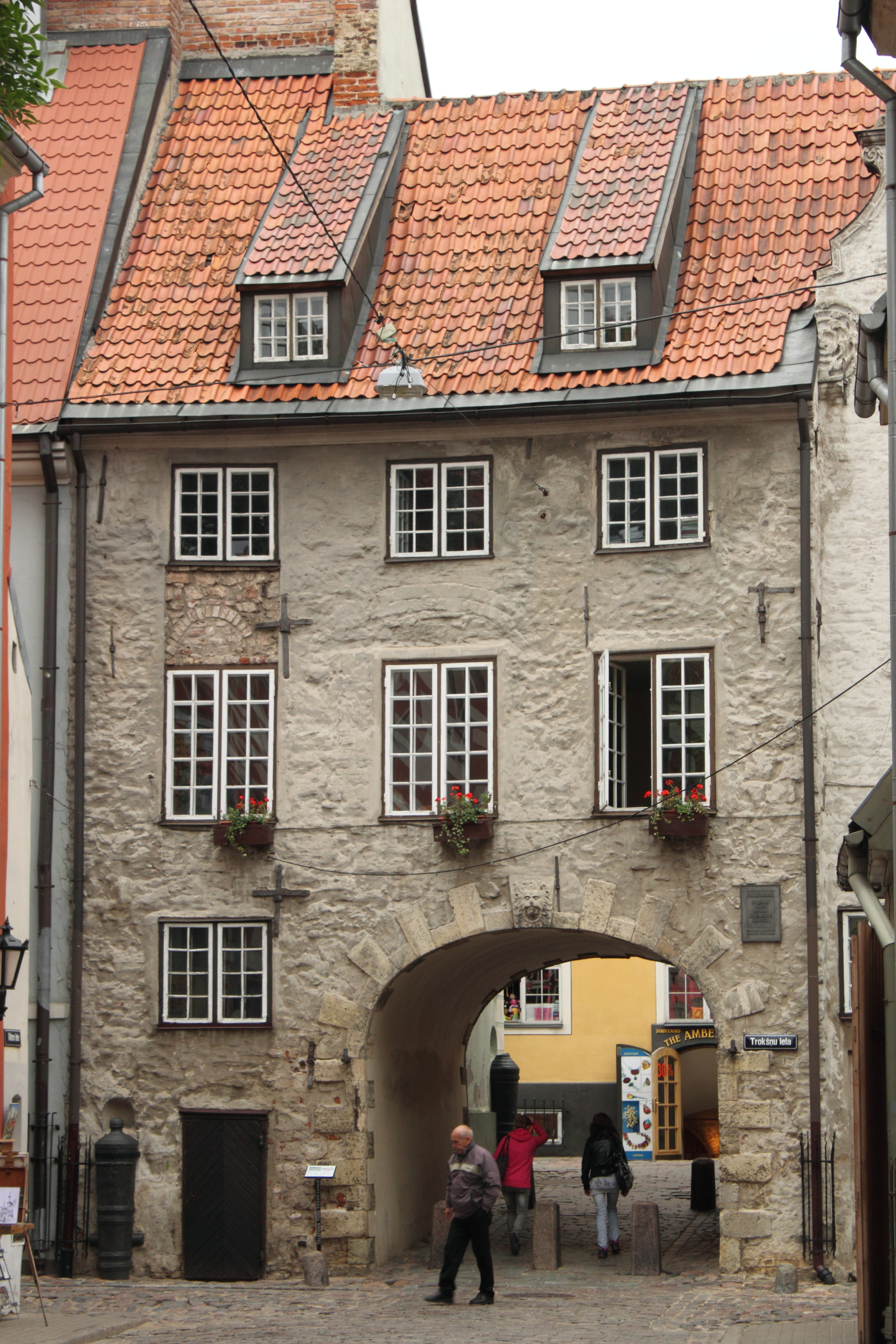 The so called Swedish Gate in Riga, Latvia.